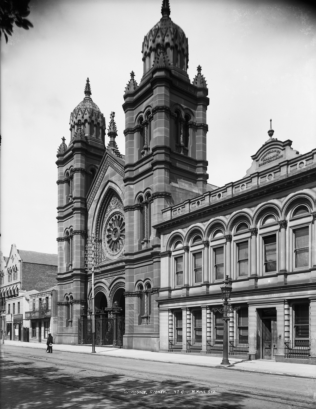 Format: Glass plate negative. Repository: Tyrrell Photographic Collection, Powerhouse Museum Part Of: Powerhouse Museum Collection General information about the Powerhouse Museum Collection is available at Persistent URL: Acquisition credit line: Gift of Australian Consolidated Press under the Taxation Incentives for the Arts Scheme, 1985